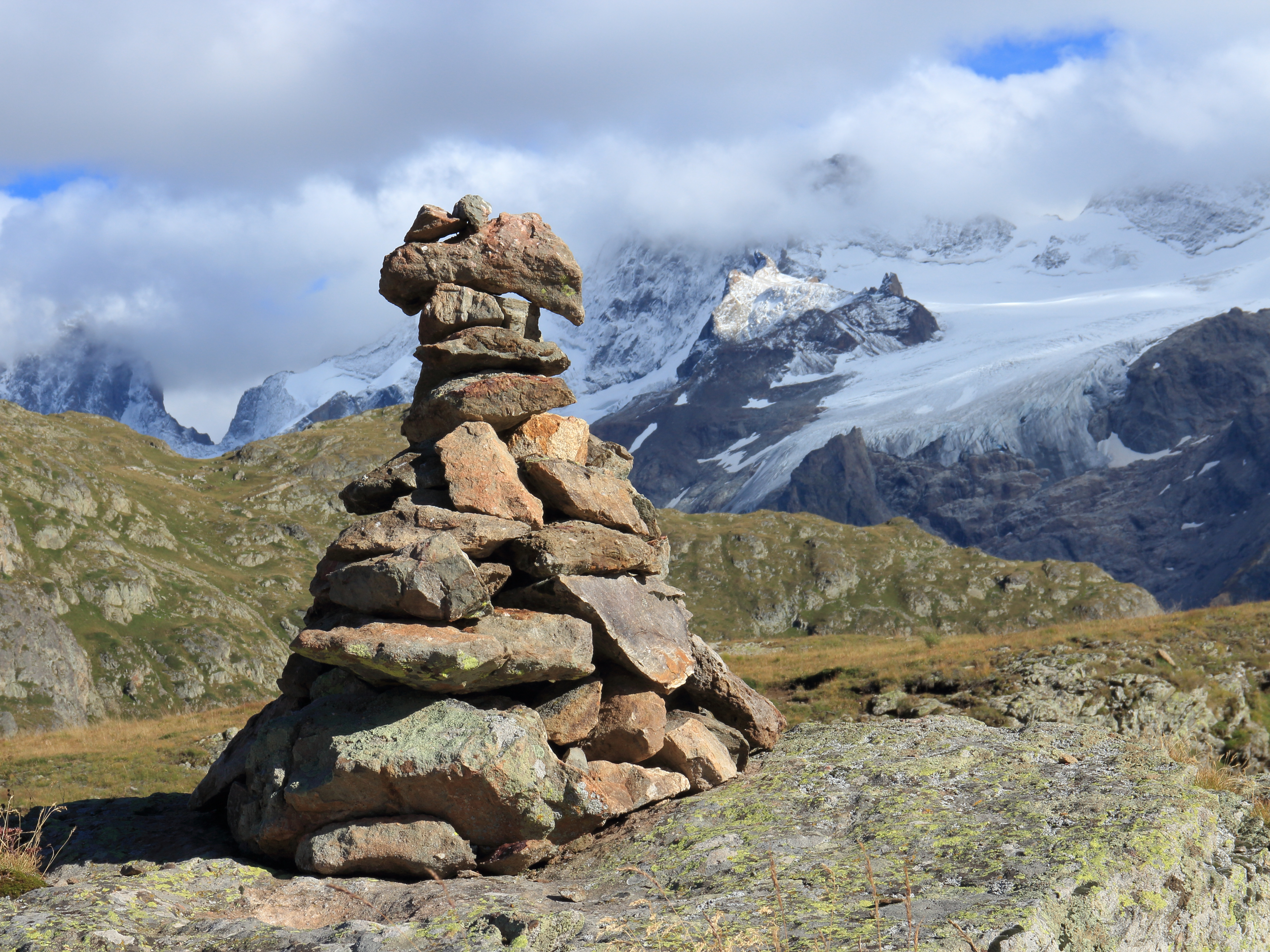 Plateau d'emparis, (2250 m.) cairn.